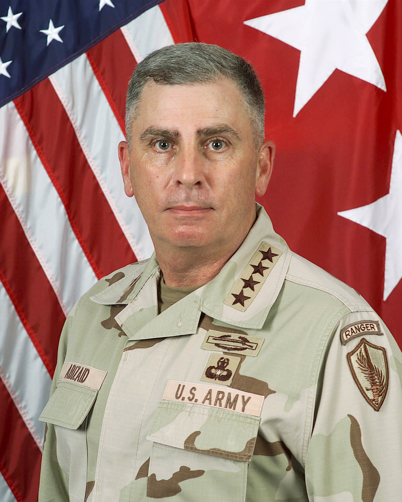 General John Abizaid in November 2004.